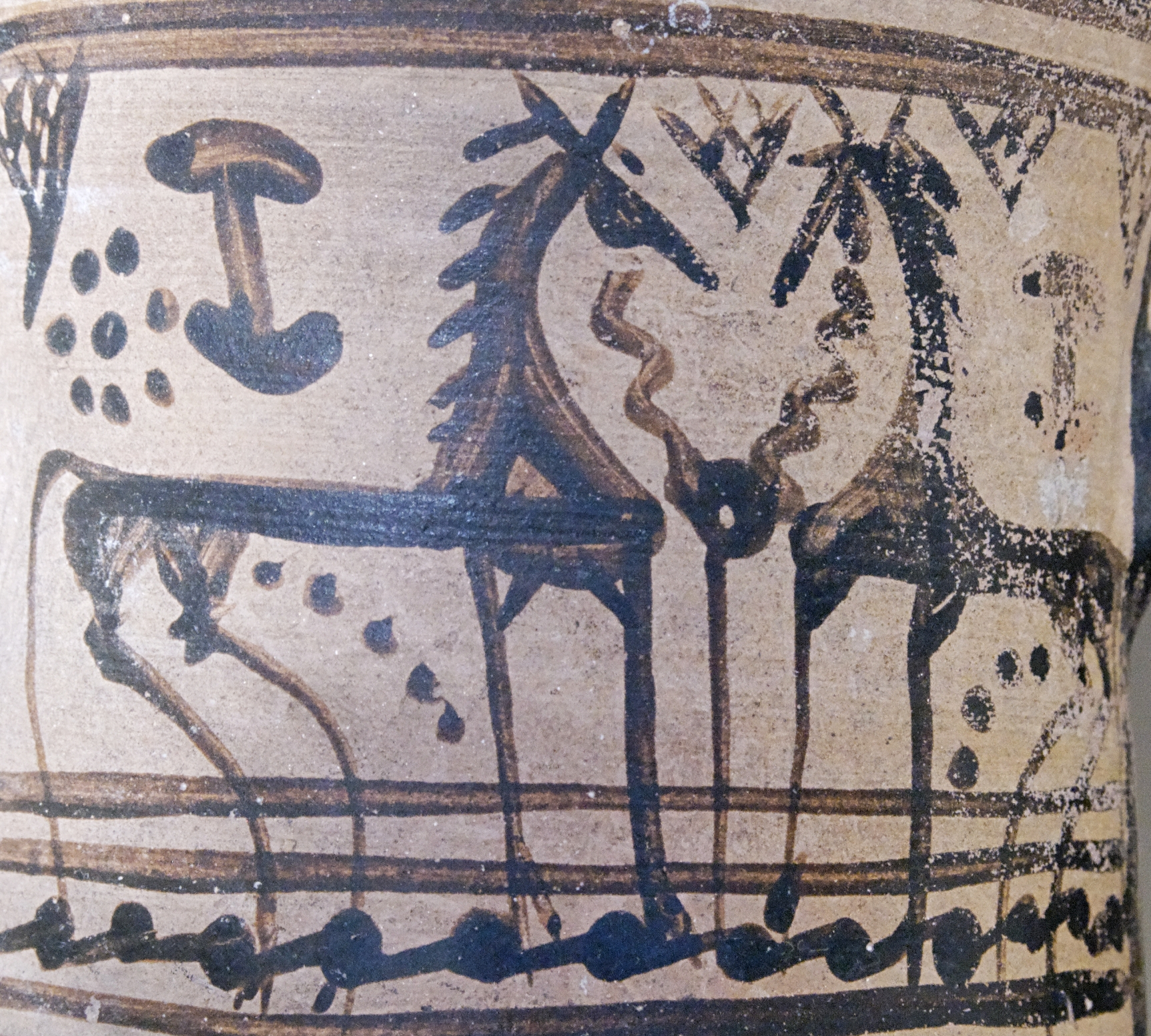 Horses at the manger. Neck from an Argive Geometric amphora.